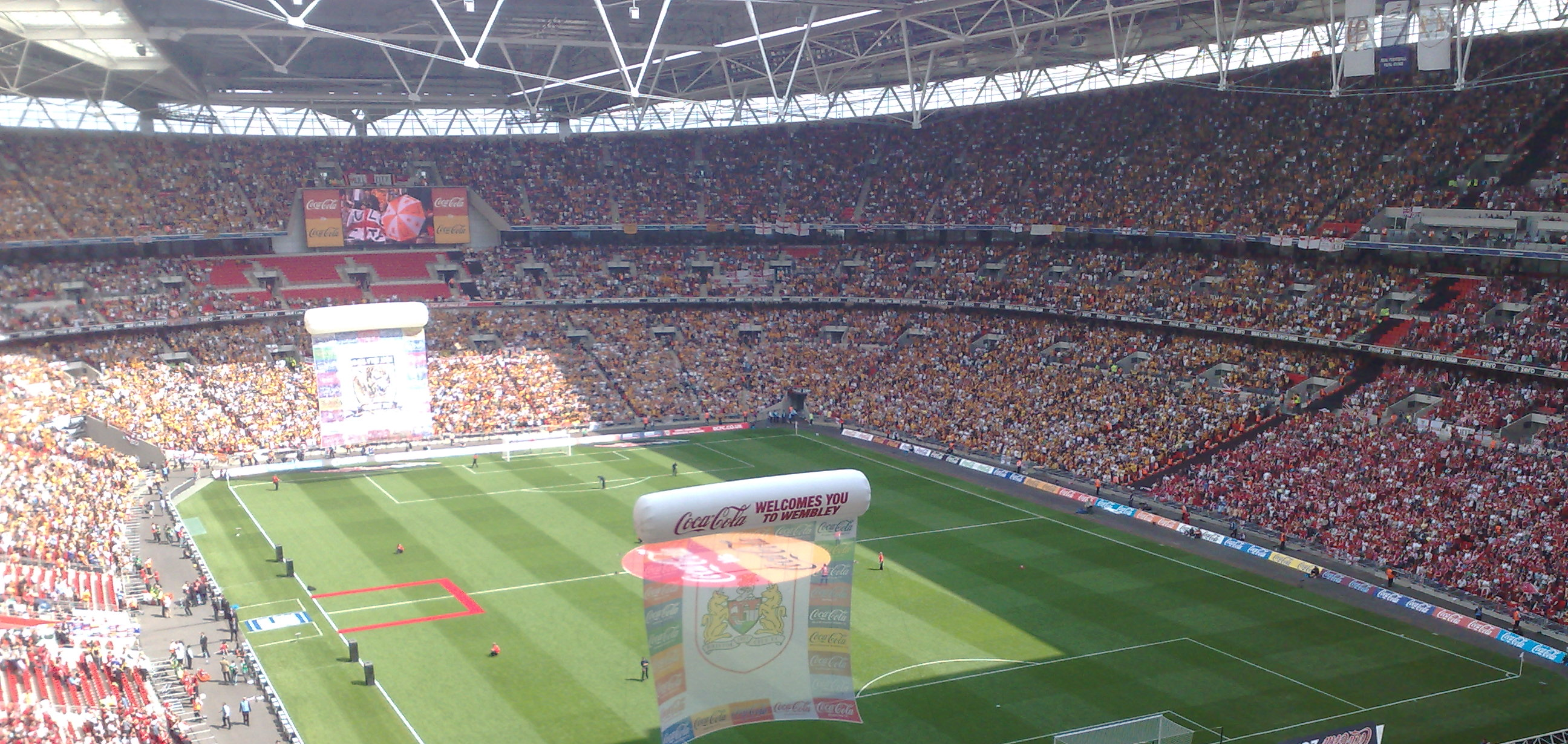 Wembley Stadium, during the 2008 Football League Championship playoff final between Bristol City and Hull City. Image cropped from original at flickr.